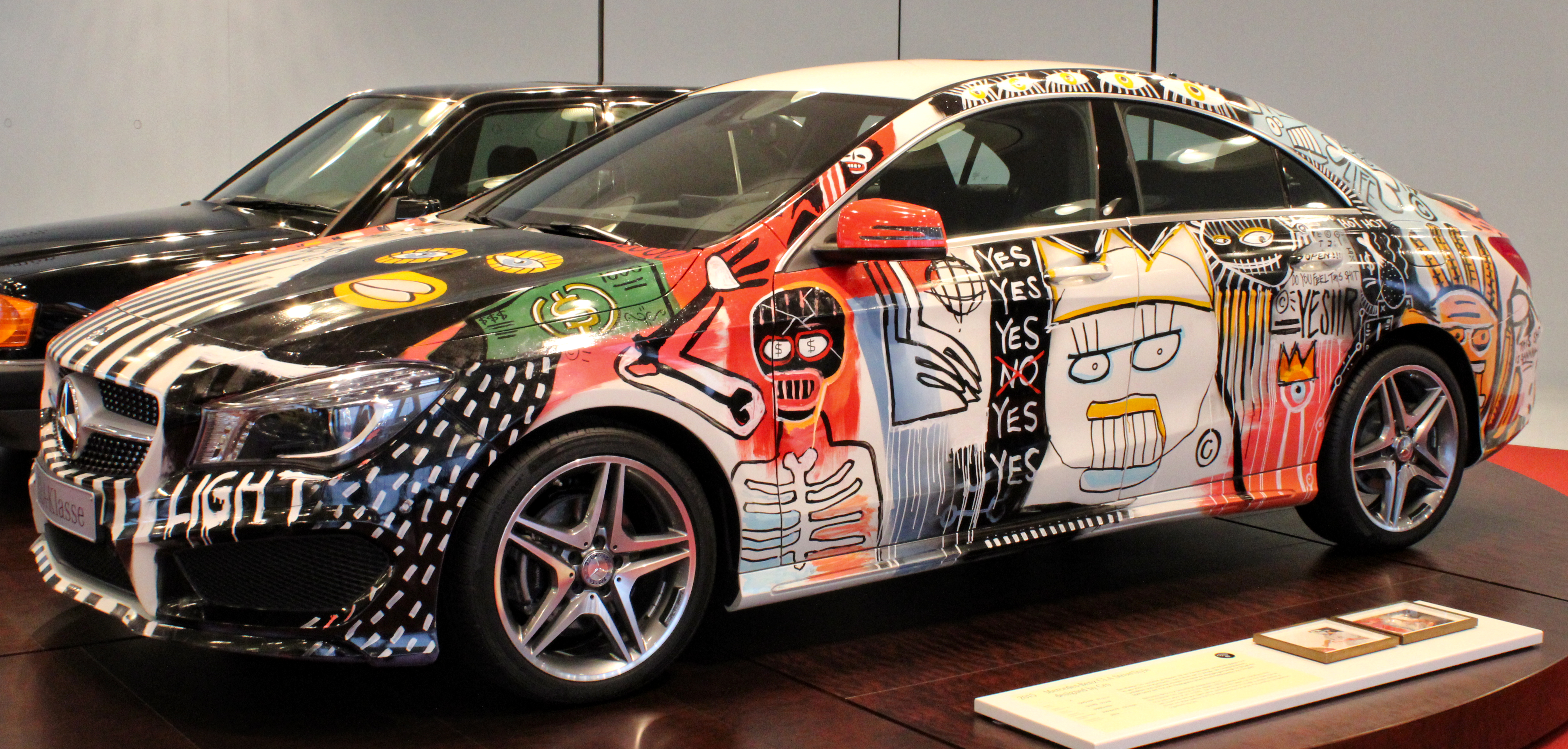 Mercedes-Benz CLA StreetStyle designed by Cro in the Mercedes-Benz Museum in December 2018